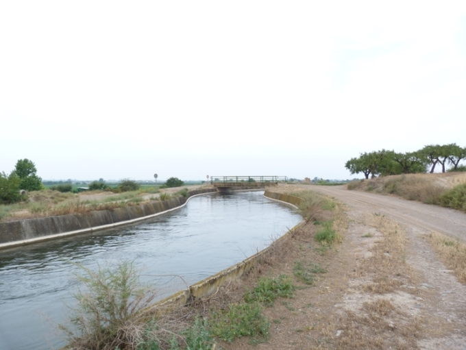 Canal d'Urgell near Claravalls, Lleida.